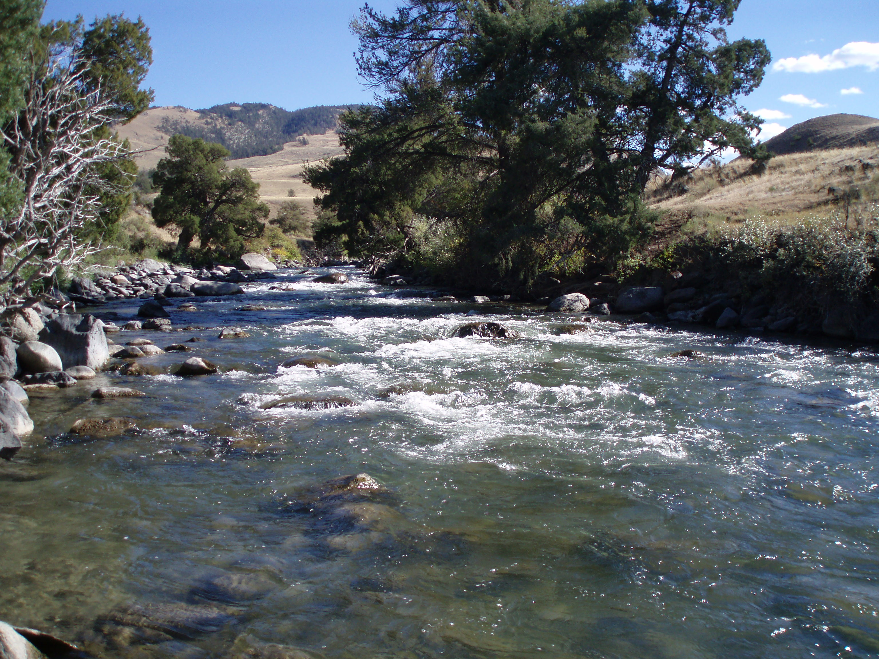 Gardner River near its confluence with the Yellowstone River in Yellowstone National Park - September 2006